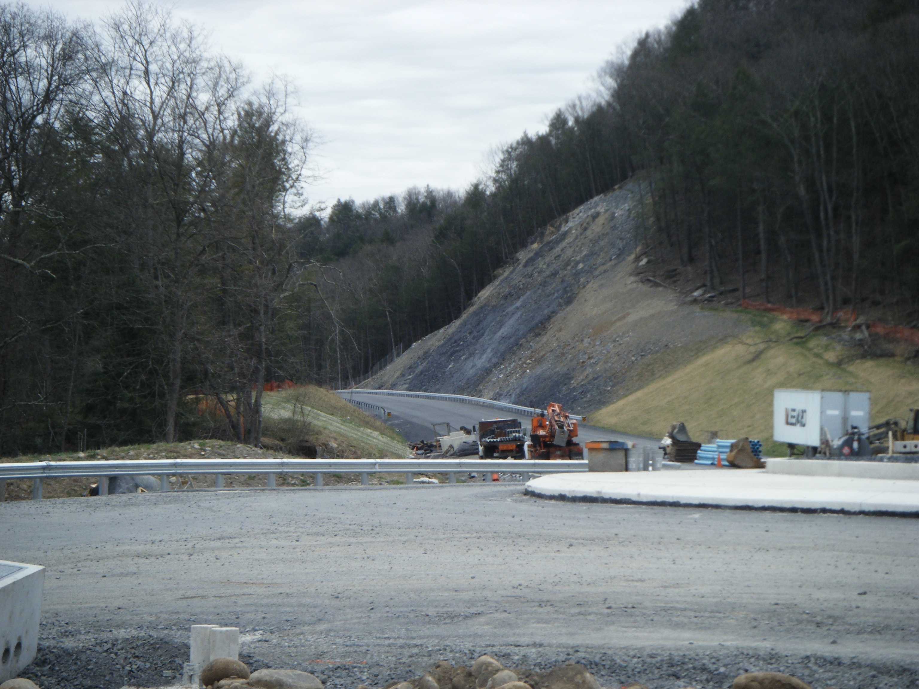 The south end of the under-construction Marshalls Creek Bypass of U.S. Route 209 in Marshalls Creek, Pennsylvania.